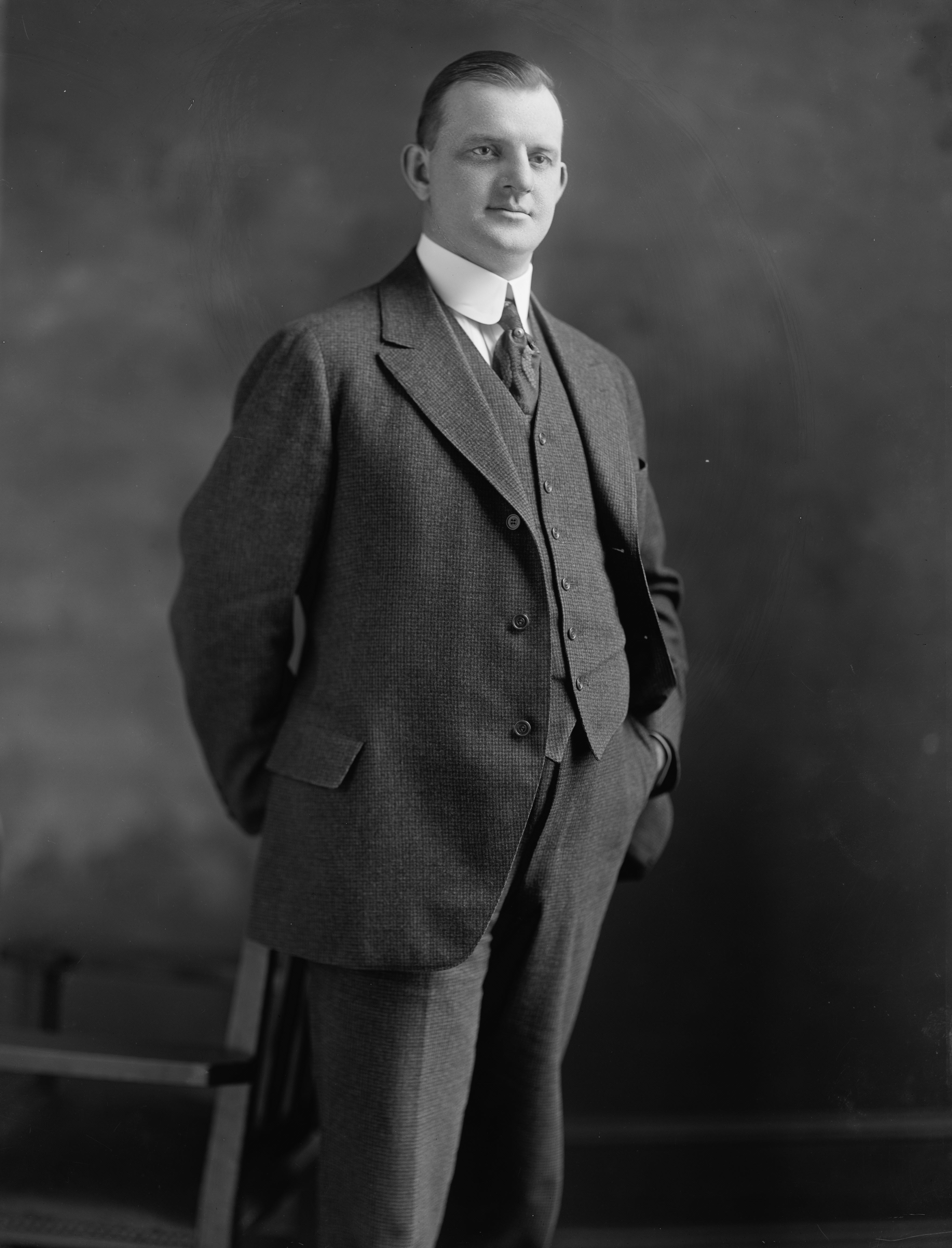 Carl Vinson, member of the United States House of Representatives from Georgia